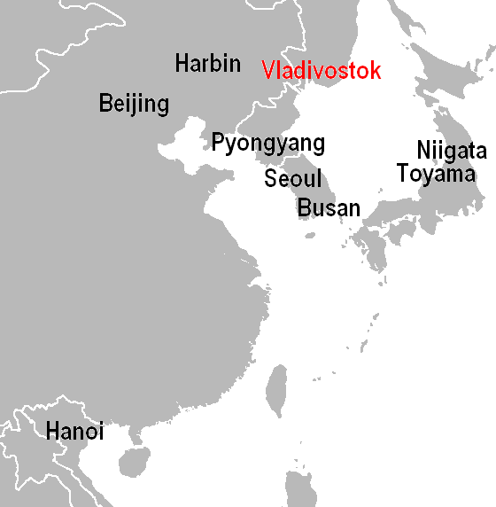 Flights from Vladivostok